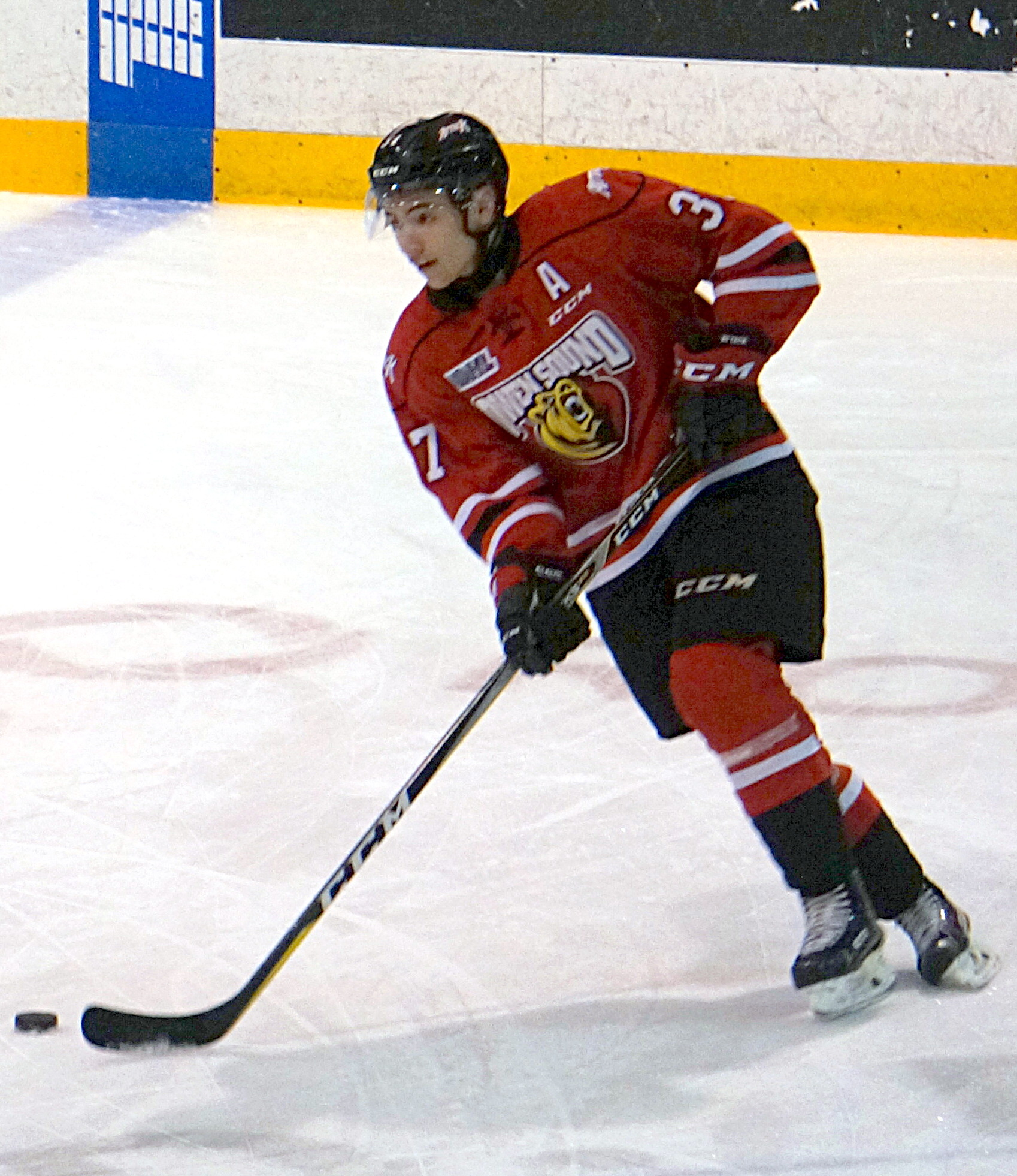 Nick Suzuki playing for the Owen Sound Attack against the Guelph Storm in Guelph on March 4, 2017.